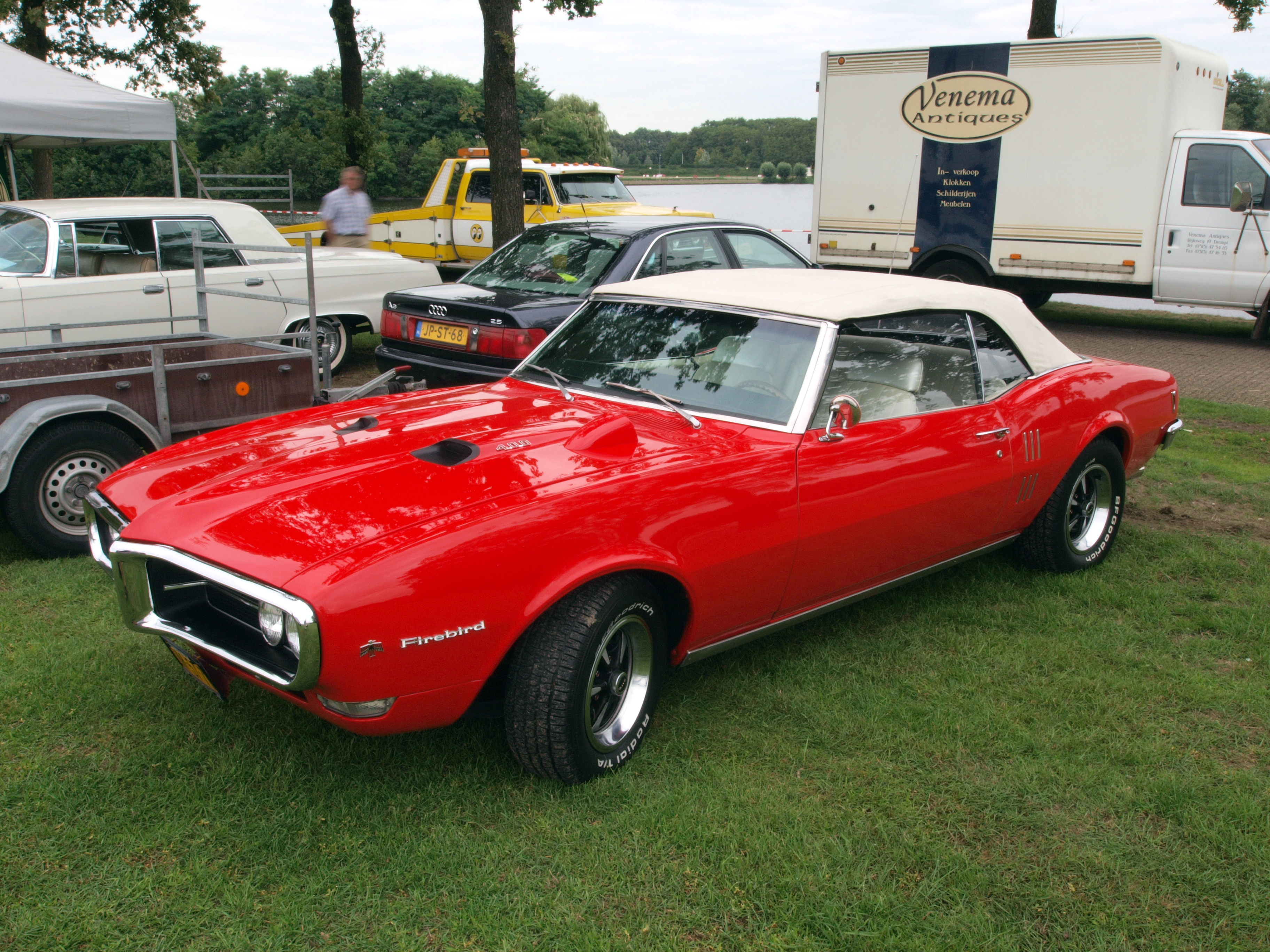 Photographed at the 2010 Autotron Classic car meeting, Rosmalen, The Netherlands. OLYMPUS DIGITAL CAMERA